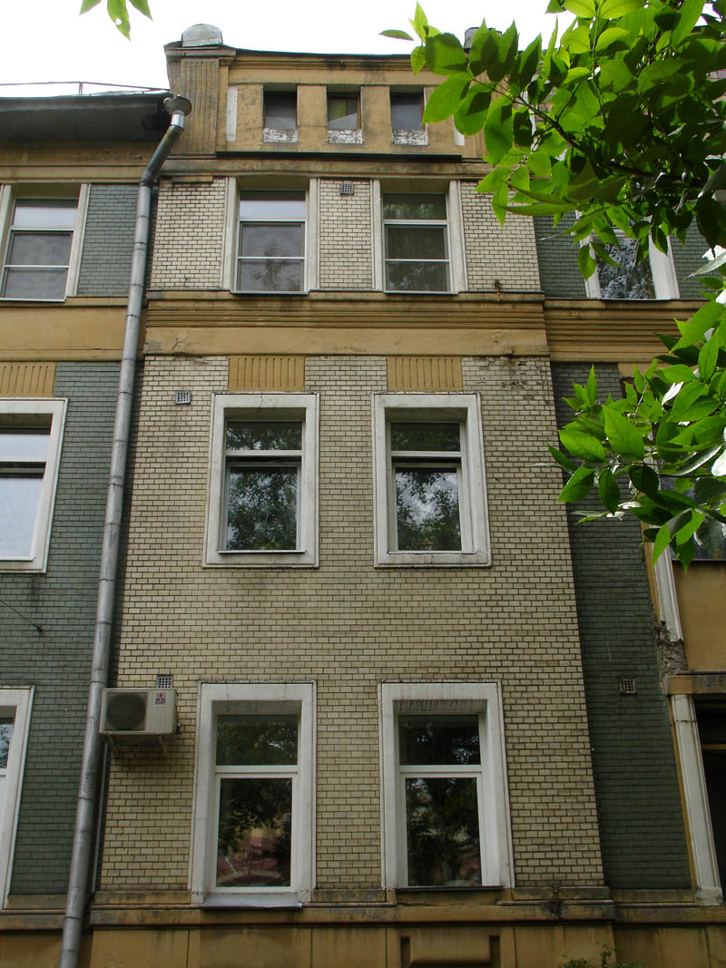 Moscow, Podsosensky Lane, 8 c.2 - Art Nouveau listed building